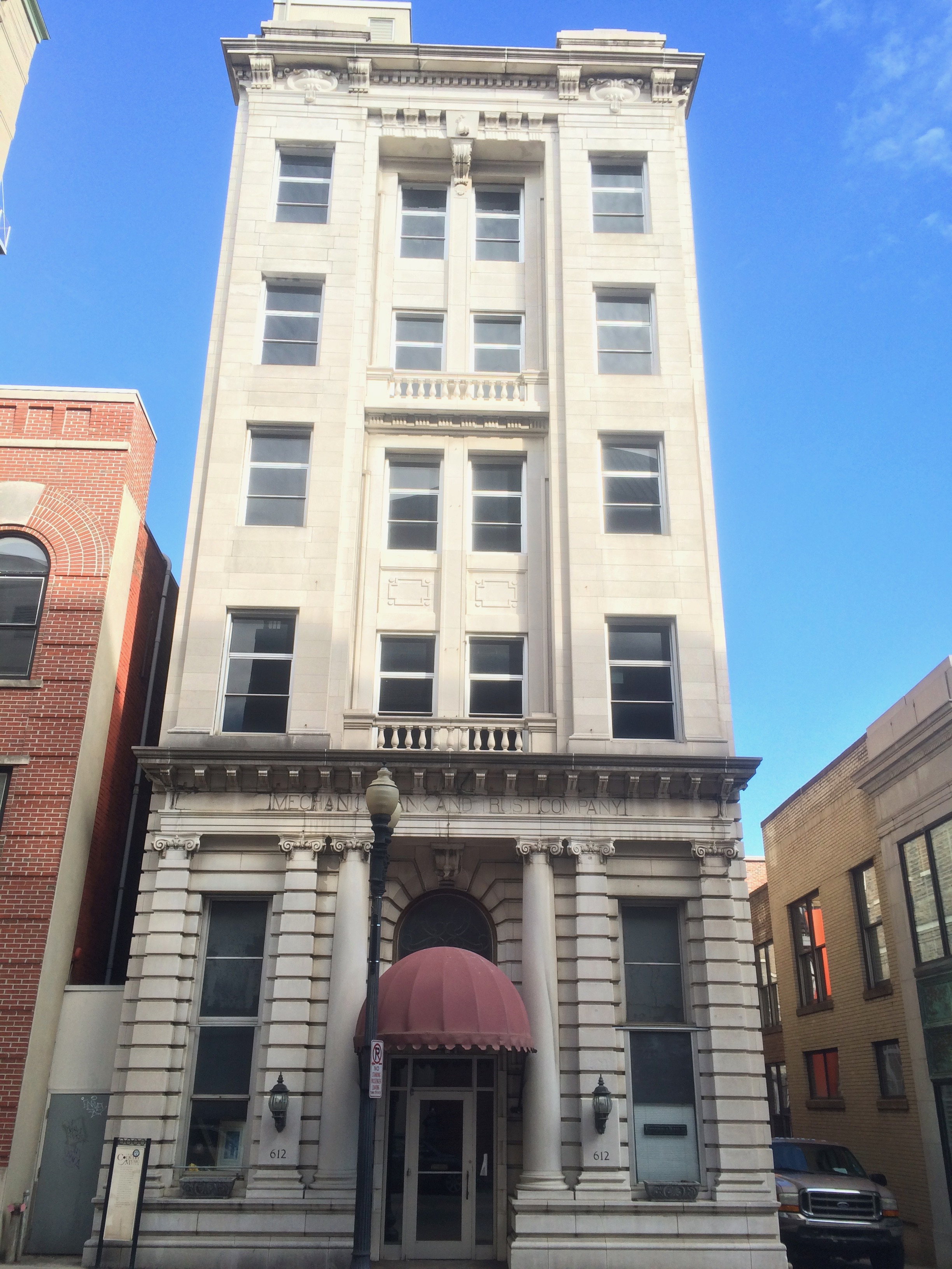 Facade in 2010's